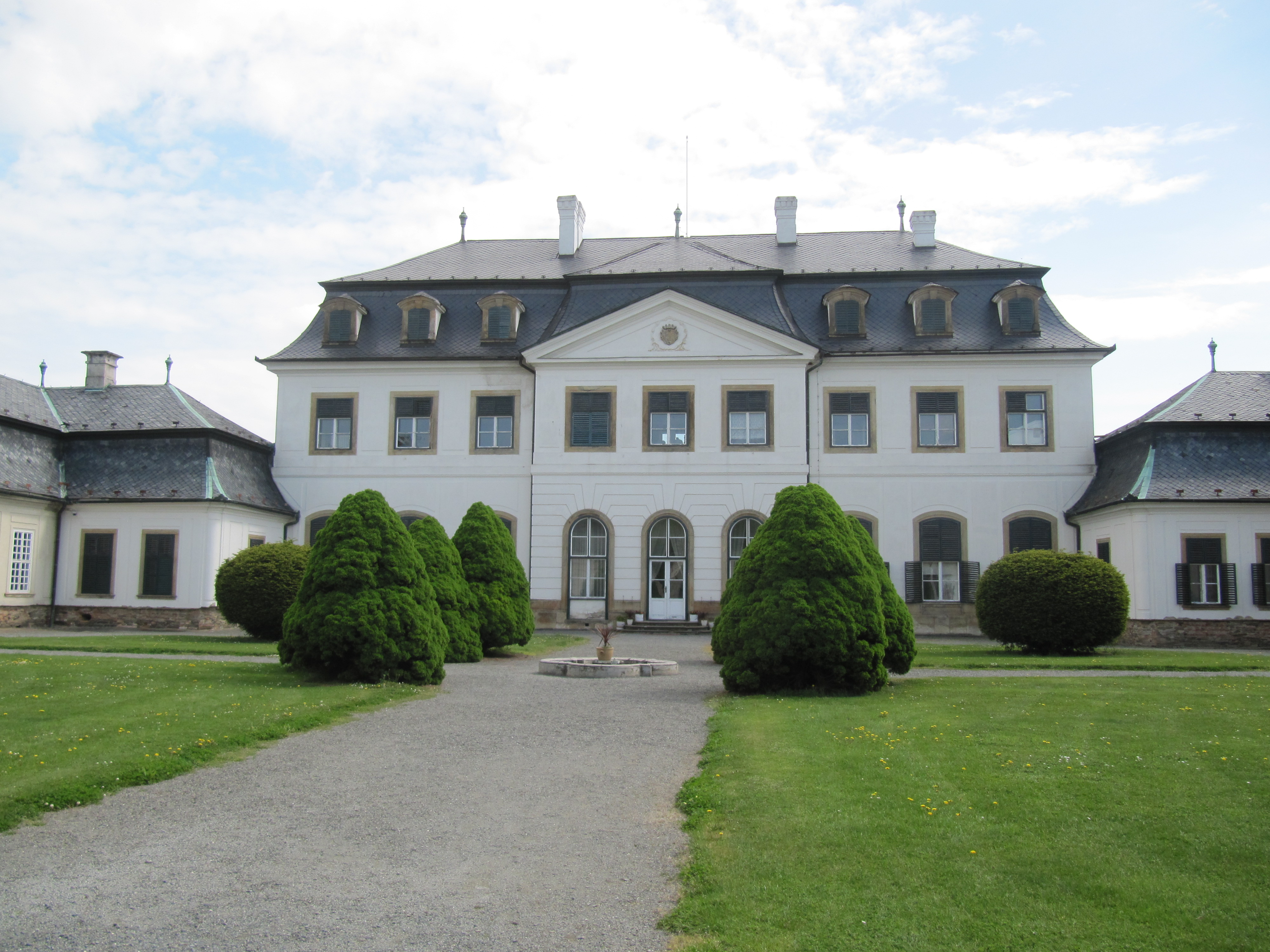 Náměšť na Hané in Olomouc District, Czech Republic. Chateau.